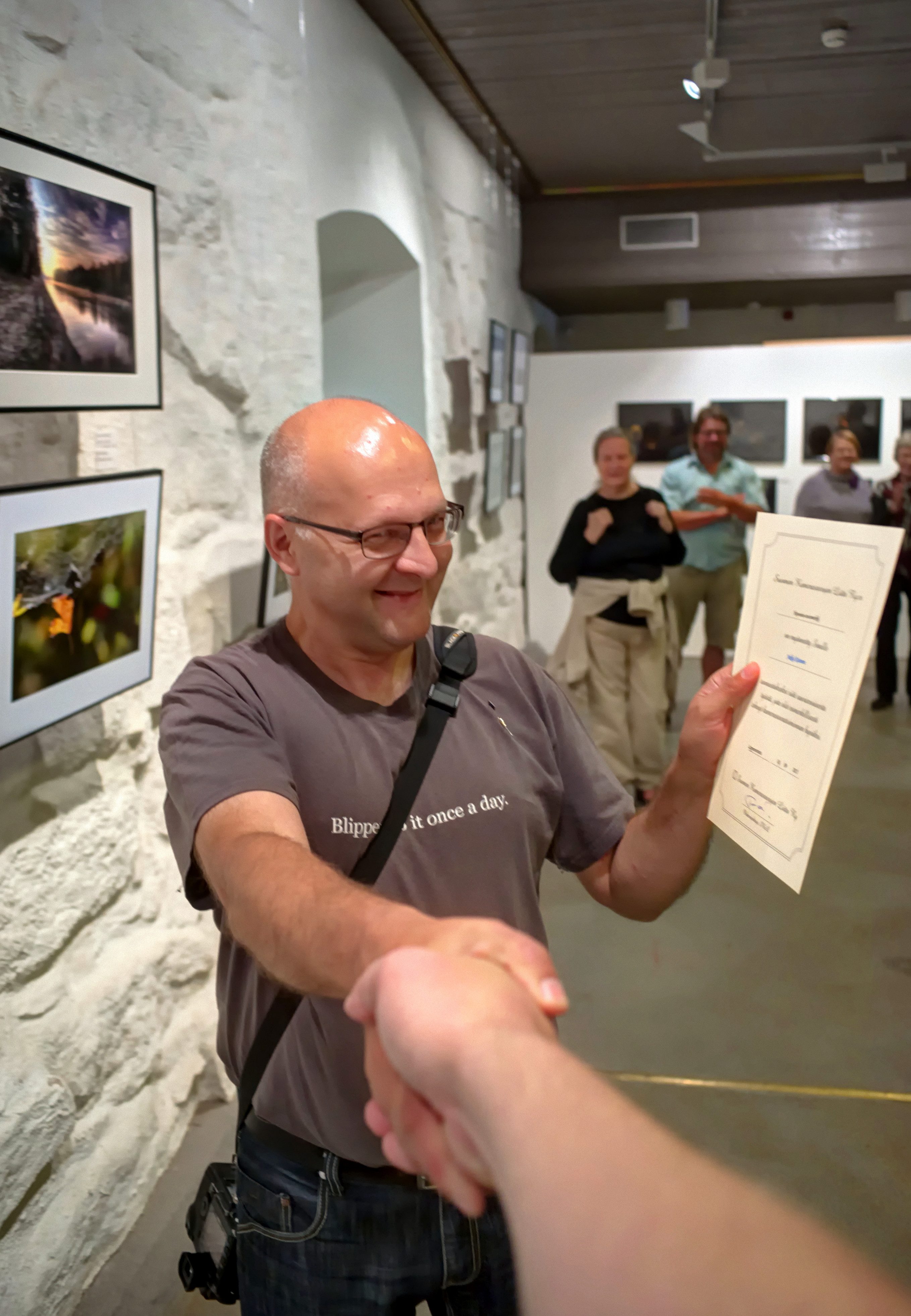 Chair Jukka Kosonen of Photoclub Saimaan Kameraseura ry 2015